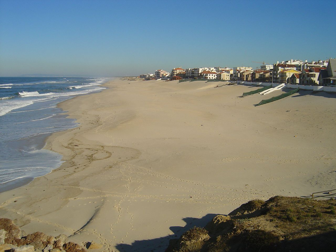 See where this picture was taken. [?]